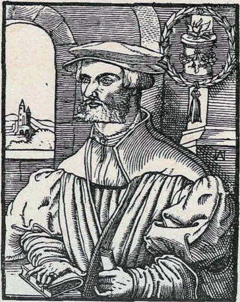 Woodcut of Christian Egenolff (1502-1555)